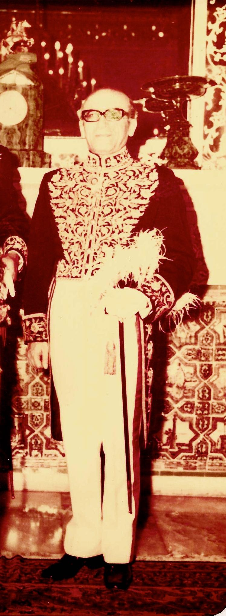 Palace meeting Tehran Iran